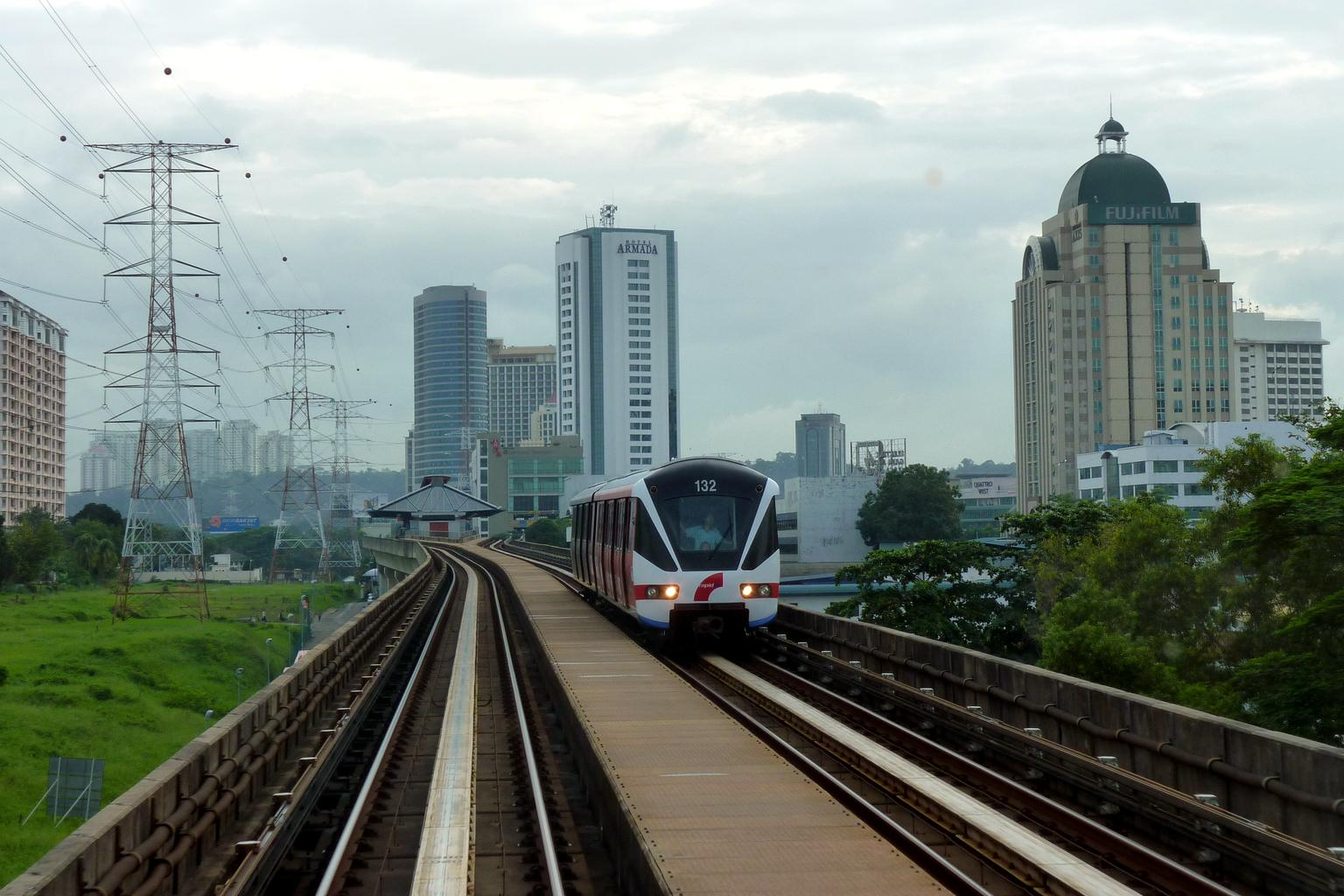 Kelana Jaya line of RapidKL LRT passing through Petaling Jaya.